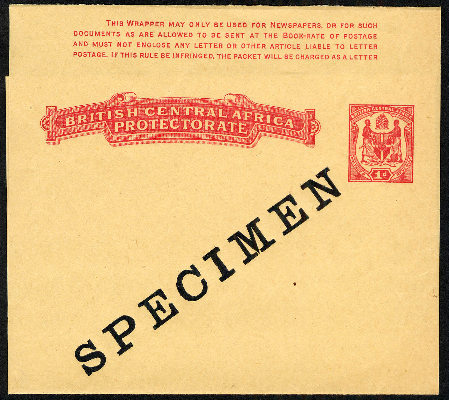 British Central Africa Protectorate specimen newspaper wrapper, scanned November 2009by User:JPKos